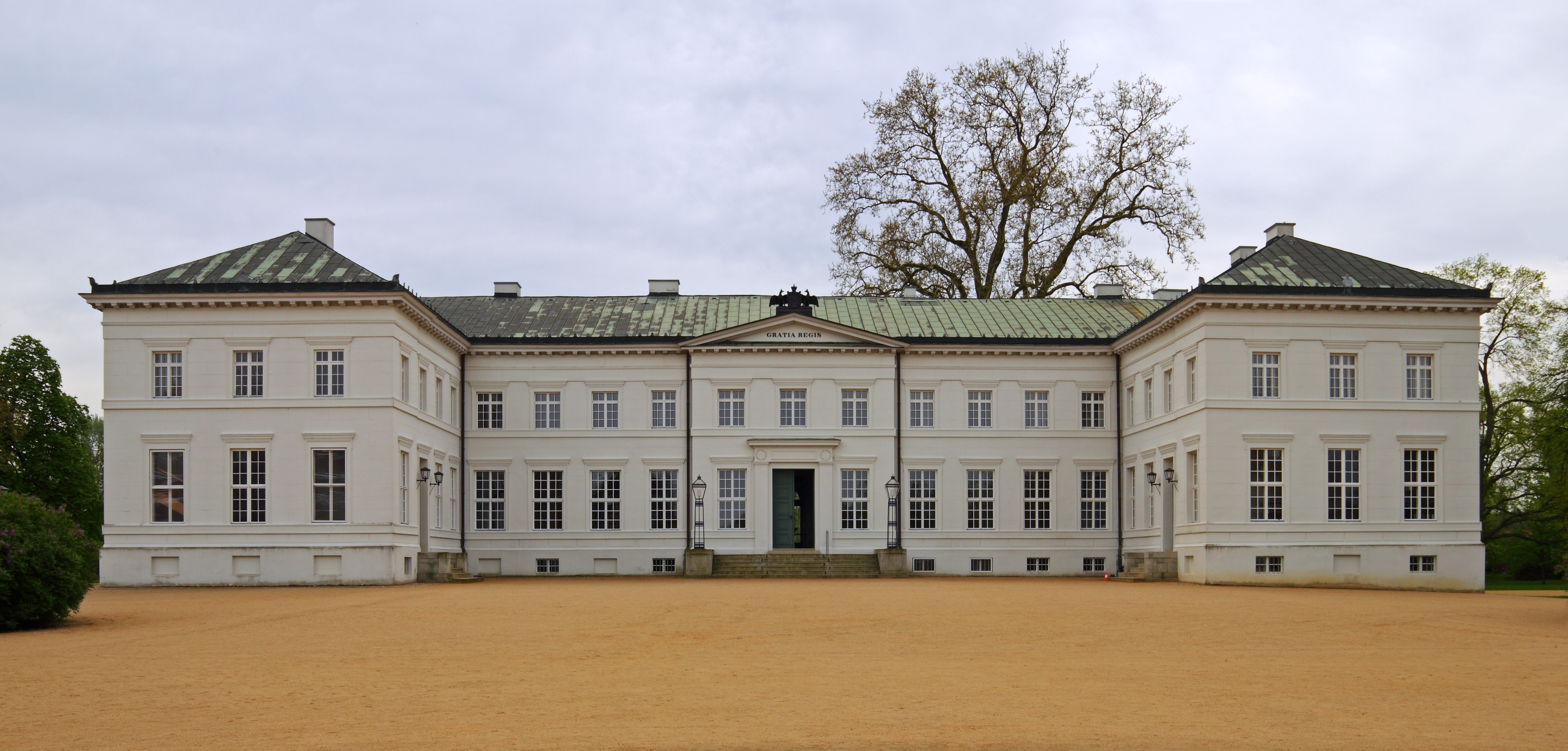 Neuhardenberg Castle (Brandenburg, Germany); northern facade